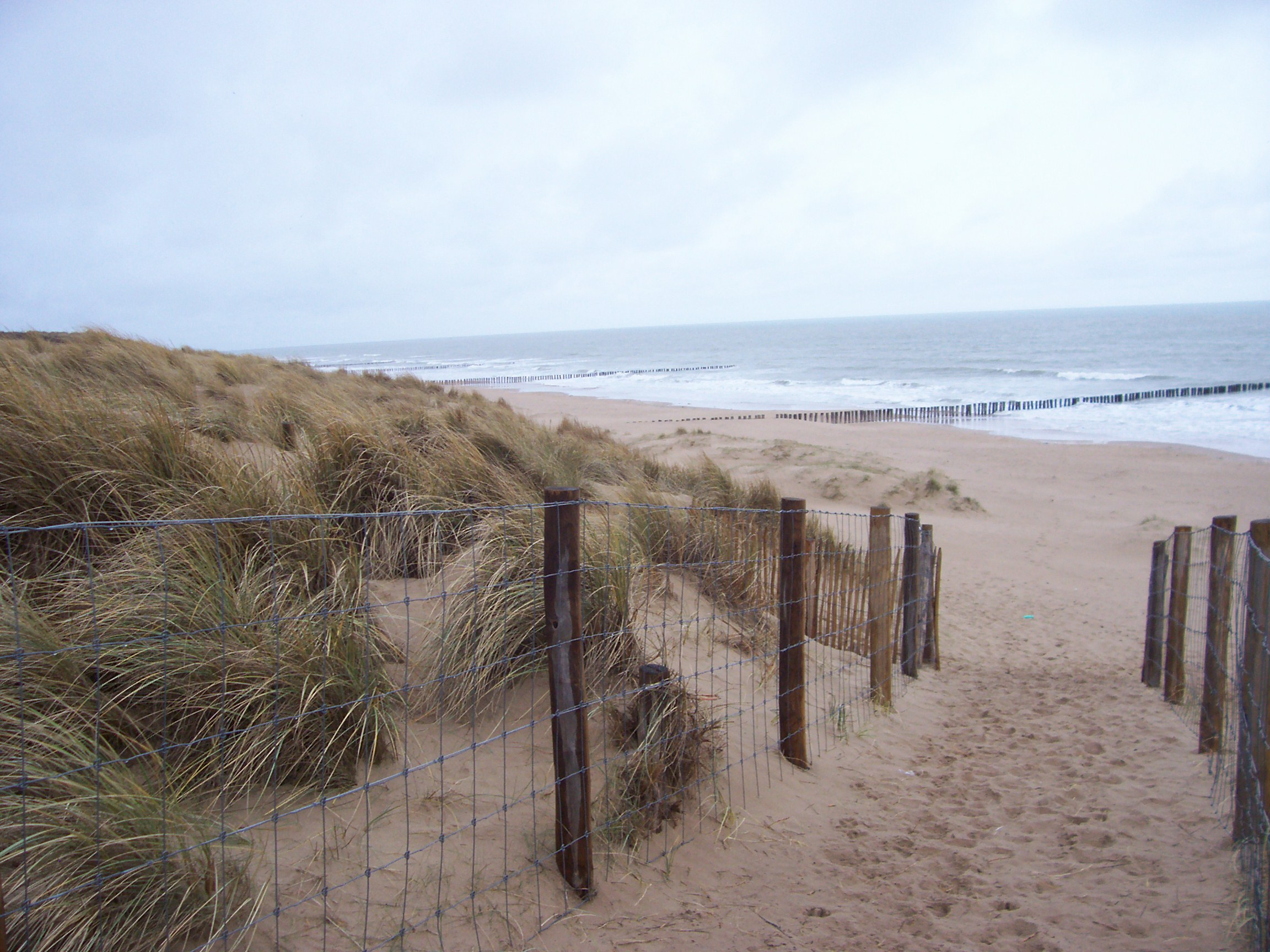 Beach of Sangatte, Pas de Calais, France